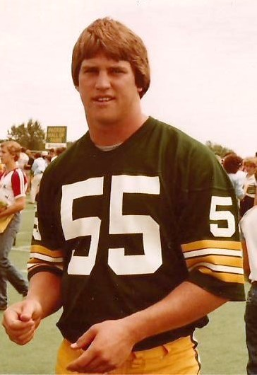 July 1981 at Green Bay Packers picture day, Mike Hunt???